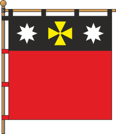 Banner of Chervone